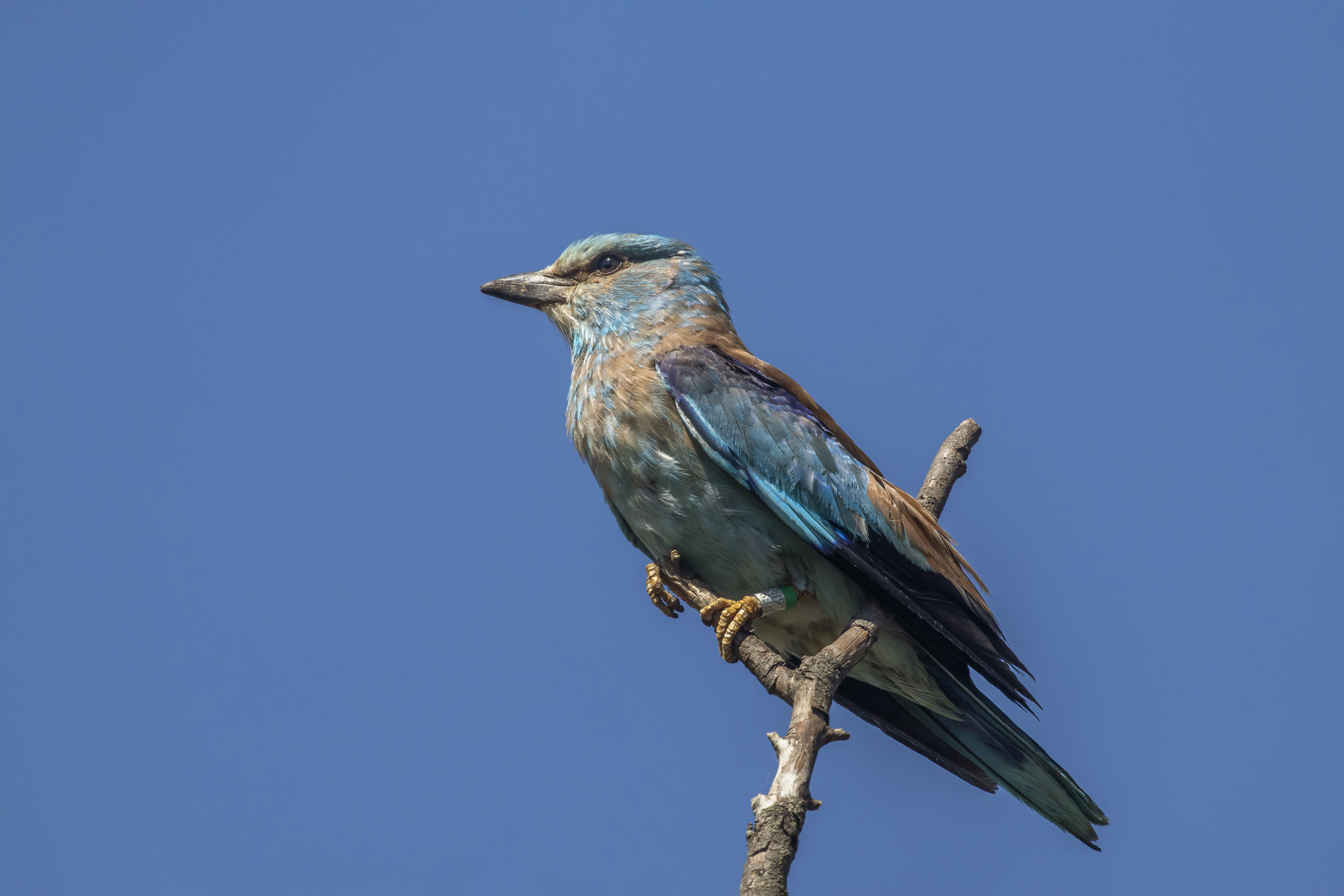 European roller (Coracias garrulus), near Kecskemét, Hungary